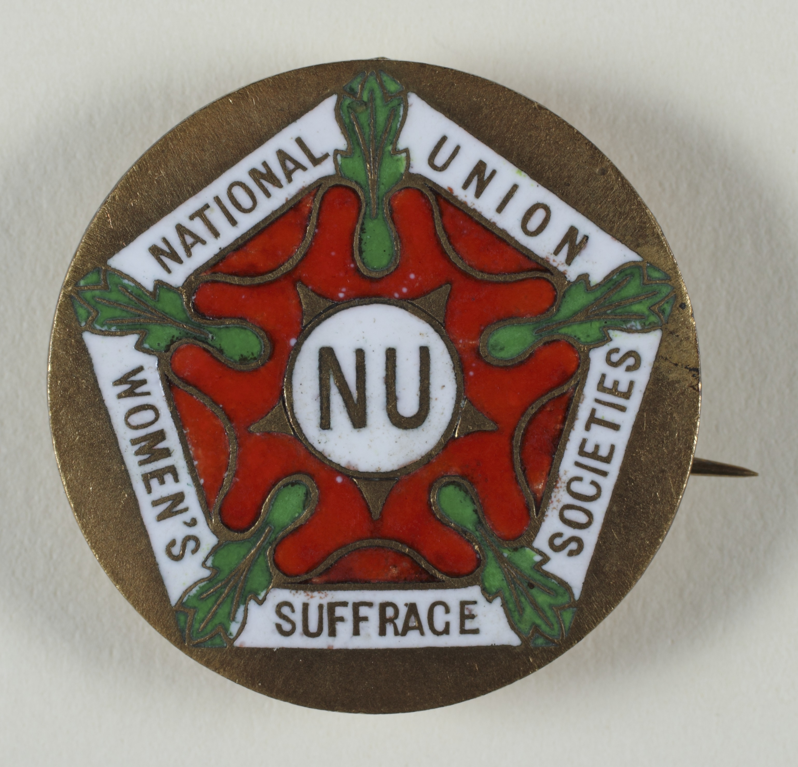 TWL.2004.591Badge, metal, enamel, hexagonal, produced by the National Union of Women's Suffrage Societies, central rose motif in red, gold and green, gold and blue inscription: 'NU' in the centre of the rose, blue border with gold inscription: 'National Union Women's Suffrage Societies'.